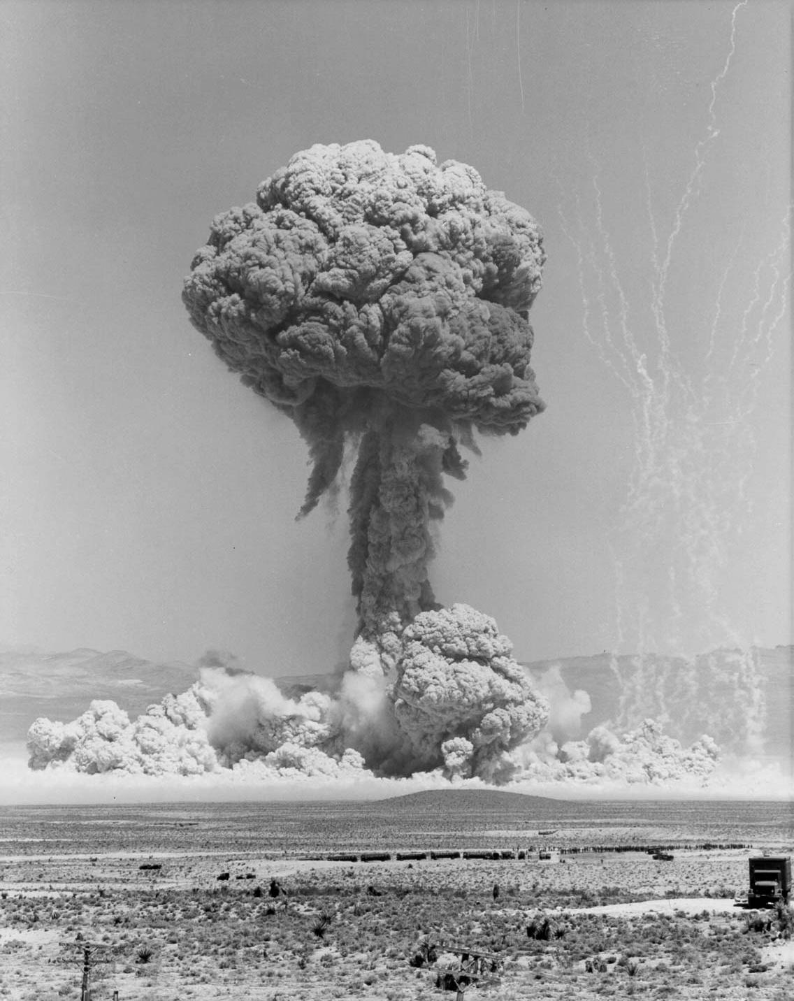 Operation TEAPOT - MET („Military Effects Test“), Nevada Test Site - Spring of 1955.